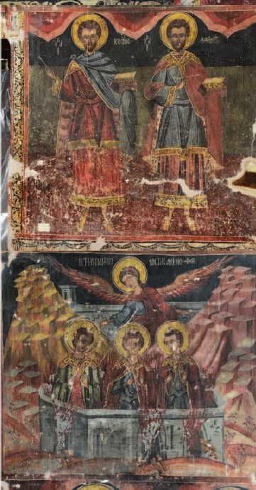 Presentation of Mary Church in Kastoria. Fresco on the western wall of the narthex. Sts Cosmas and Damian and The Three Kind in the Oven.